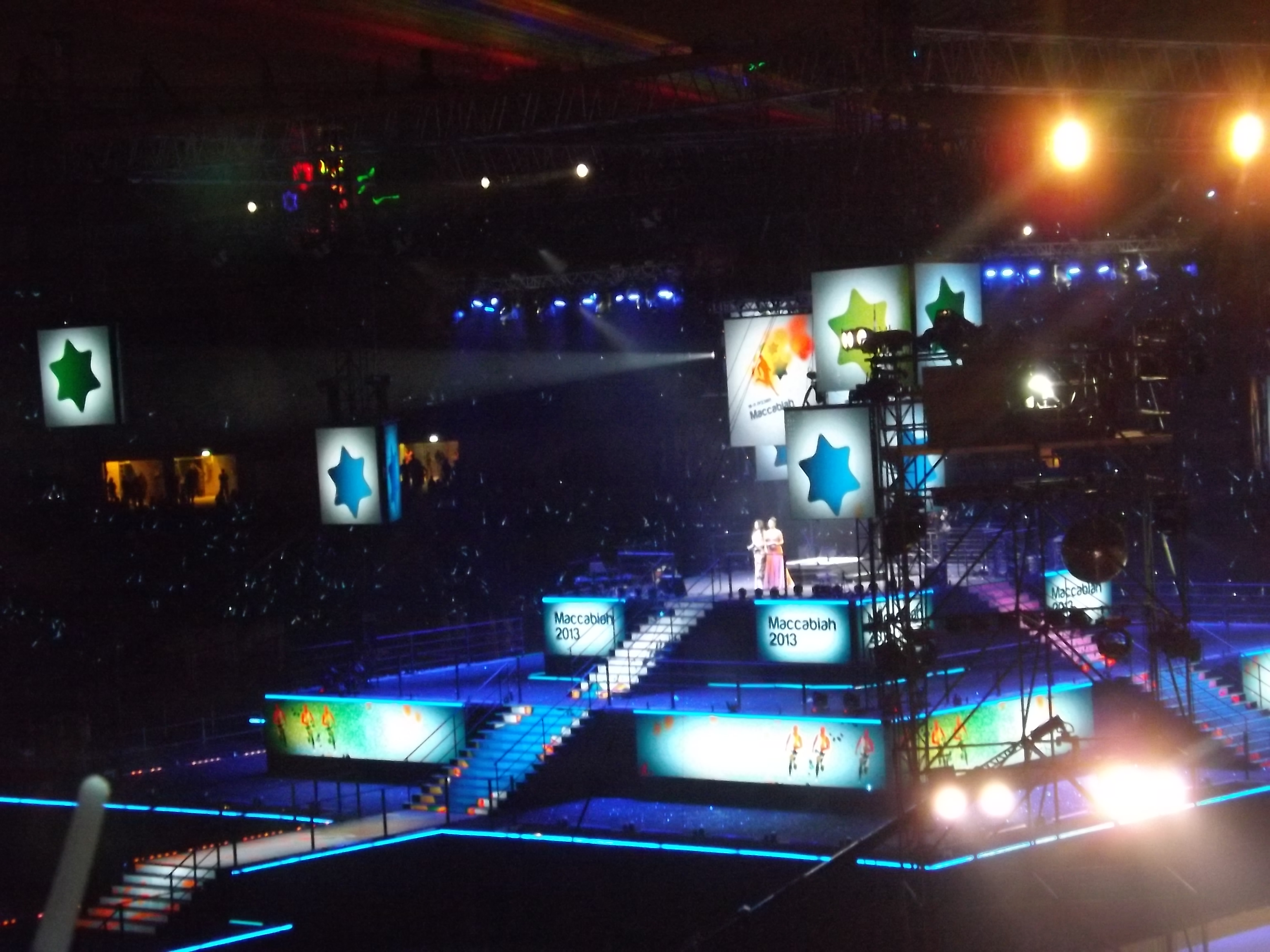 Scene at the Opening Ceremony of the Maccabi Games 2013